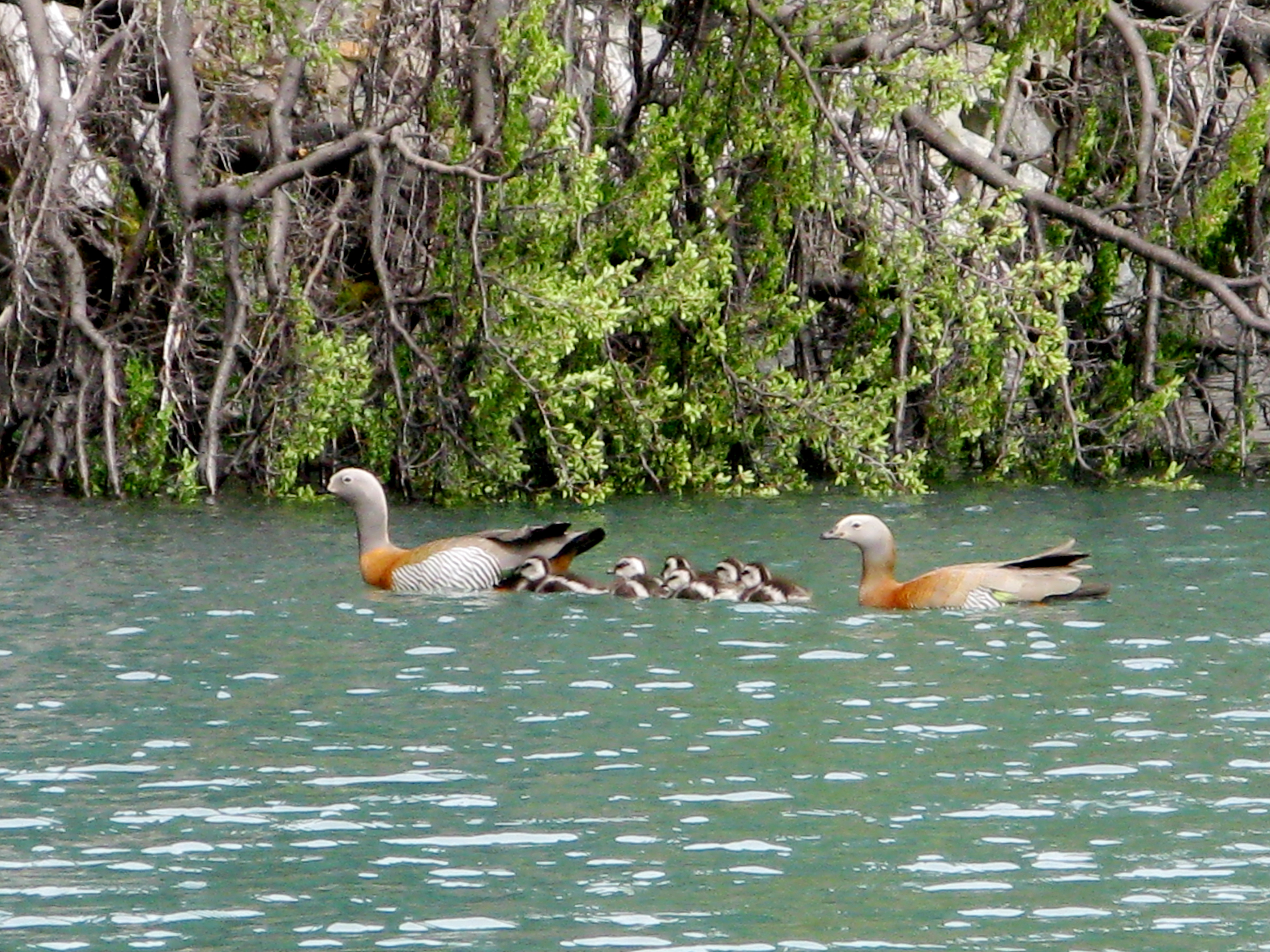 Ashy-headed Goose (Chloephaga poliocephala) Tierra del Fuego National Park, Patagonia